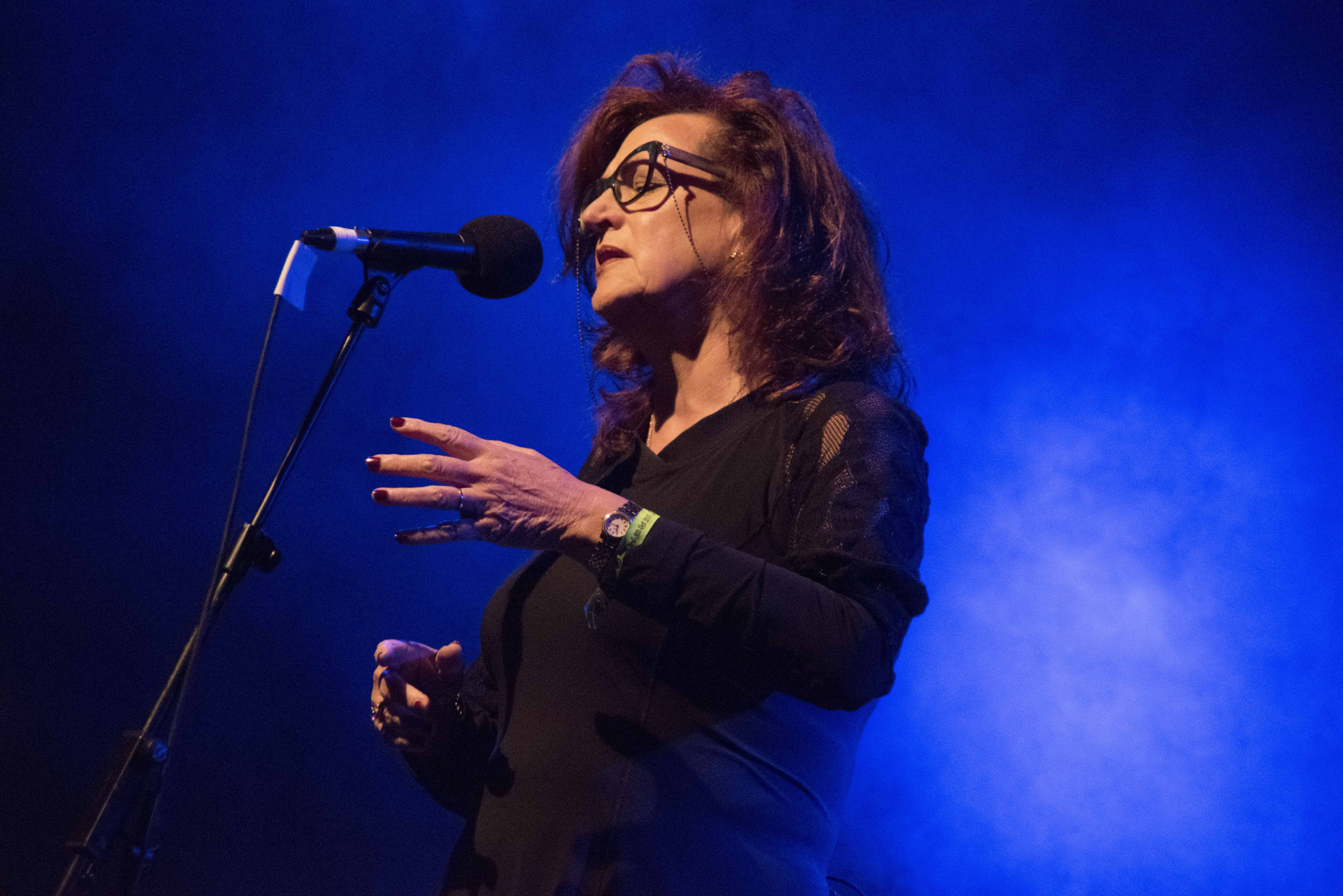 Costa del Folk, Portugal